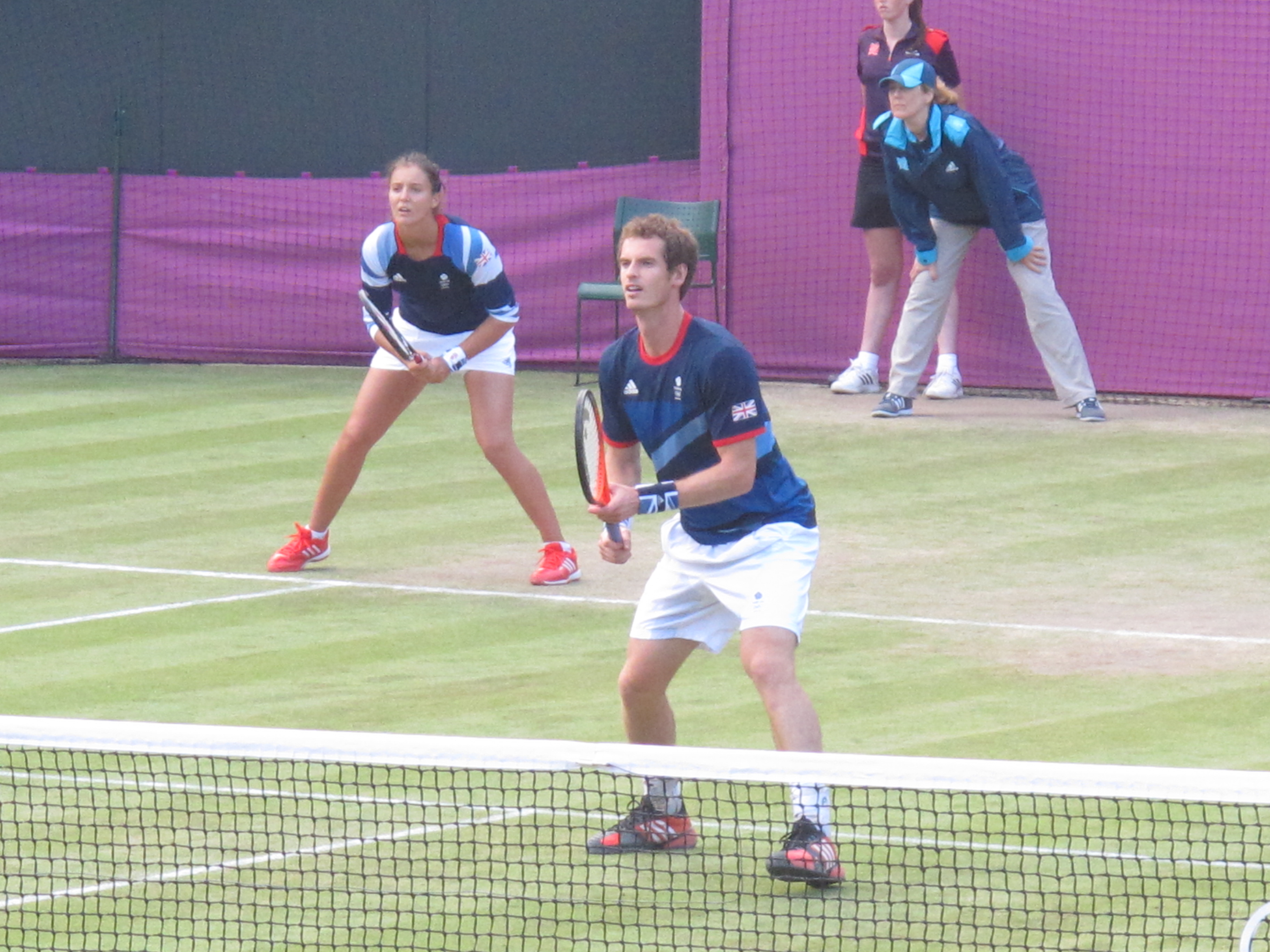 Laura Robson and Andy Murray in the Mixed Doubles at the 2012 London Olympics